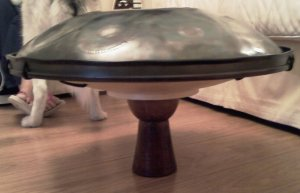 Side view of a a Caisa Drum.